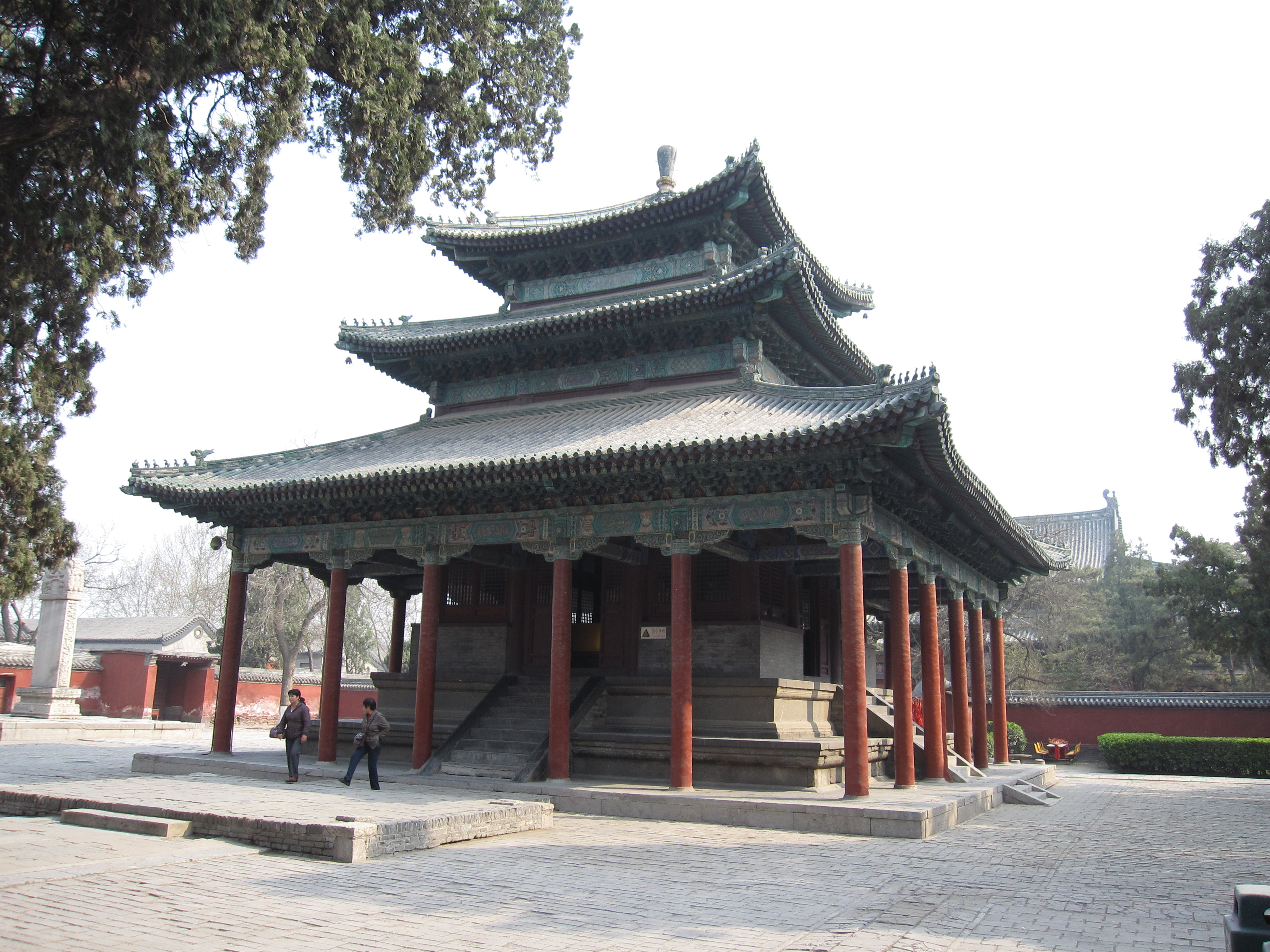 The Buddhist Altar at the Longxing Temple, in Zhengding, China. Built during the Qianlong Period of the Qing Dynasty